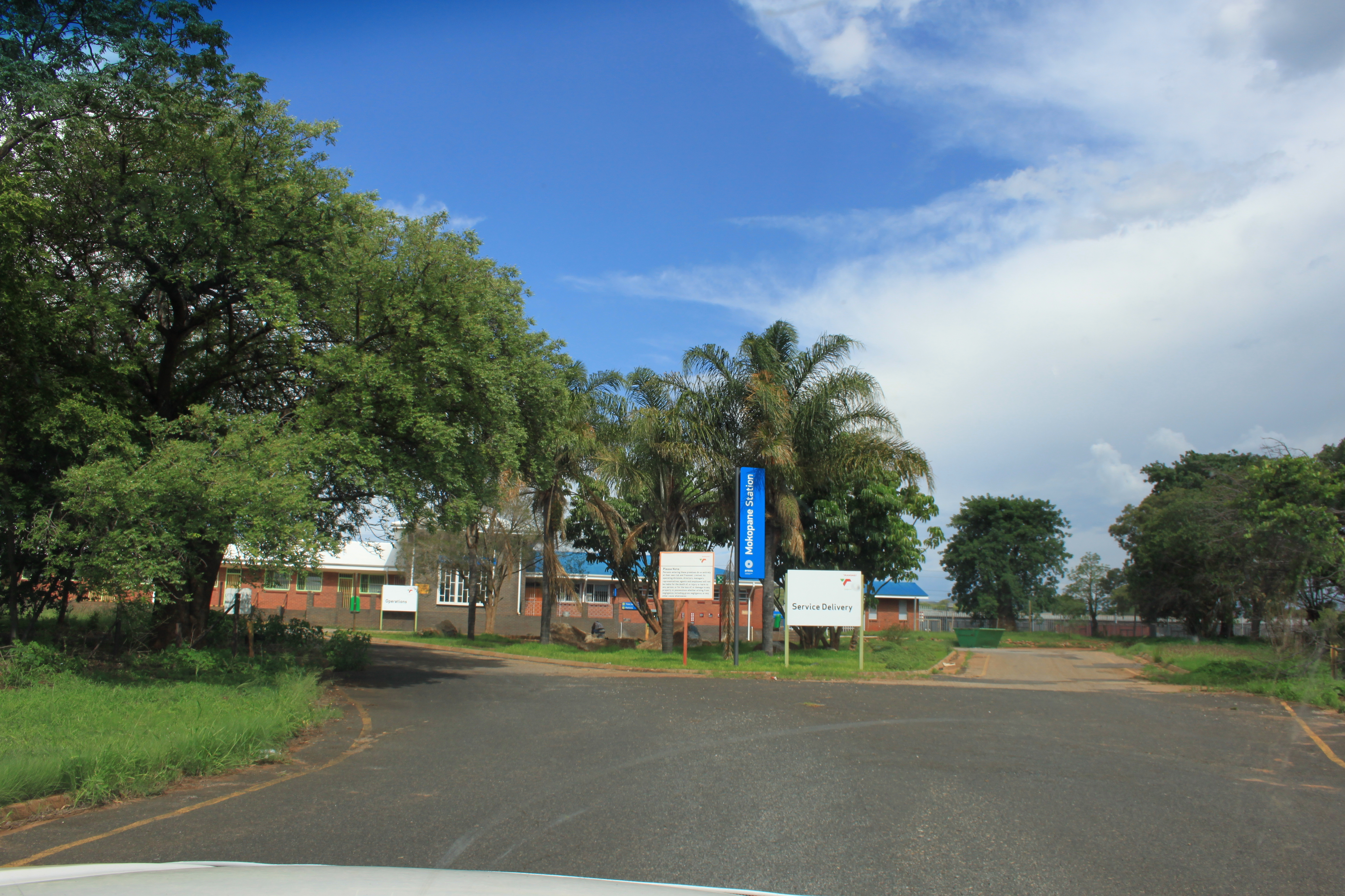 Mokopane, 0601, South Africa